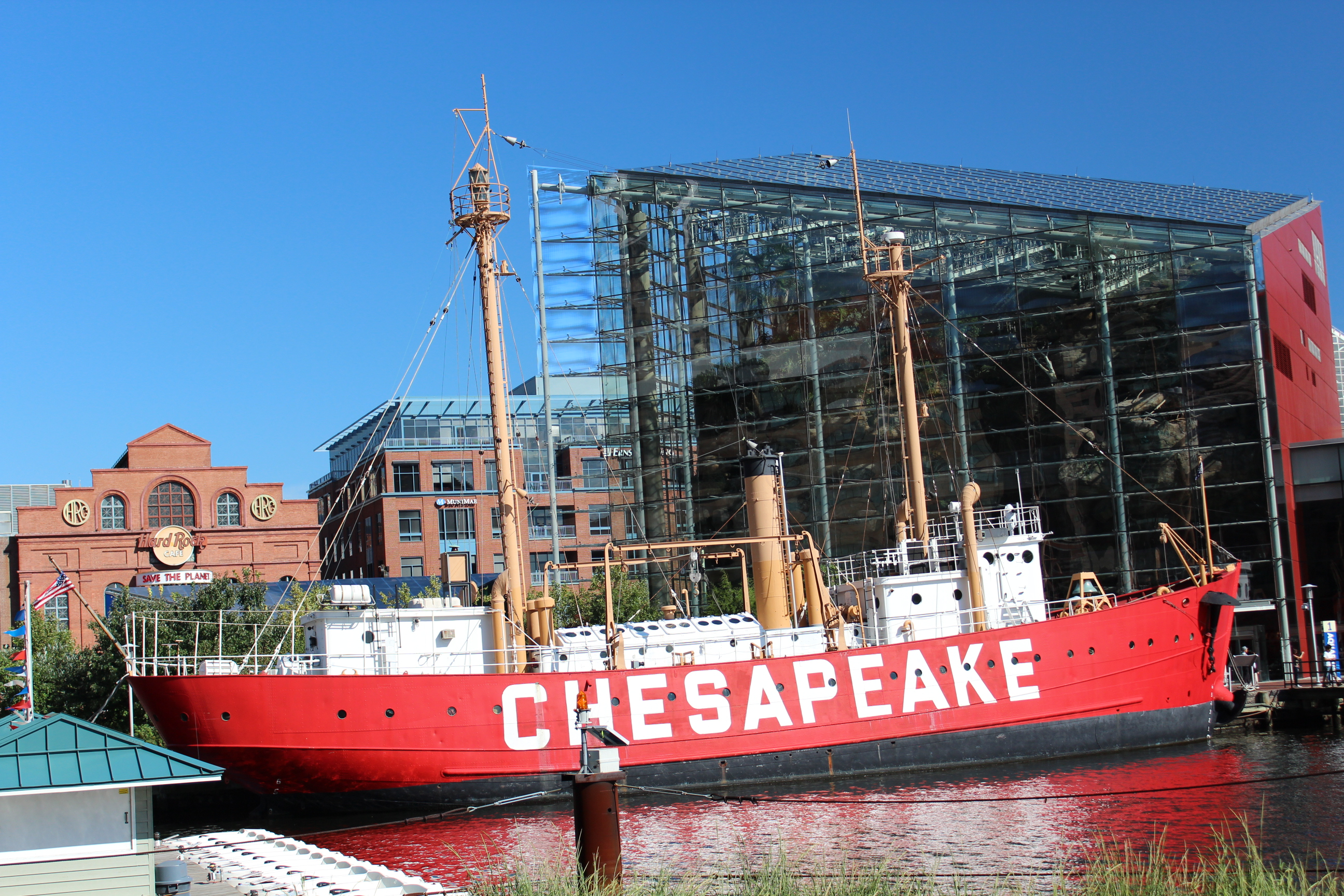 CHESAPEAKE (lightship)